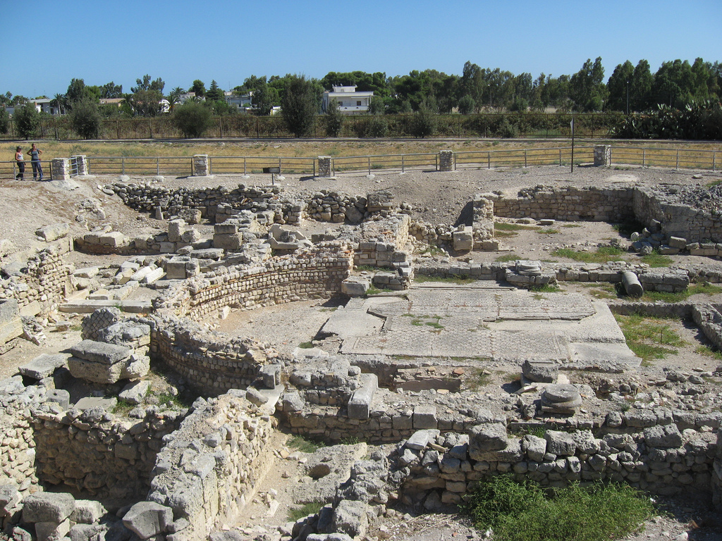 Archaeological excavation of Roman basilica in Siponto